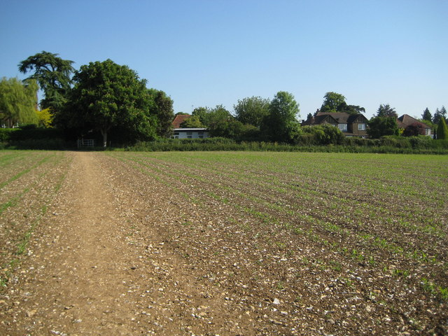 Kings Langley: Site of the former Royal Palace The former Royal Palace at Kings Langley was built under the supervision of Eleanor of Castile (1241 - 1290), wife of King Edward I. It appears to have been started around 1276 and to have been completed by 1299. This is how the village of Langley got its epithet Kings. Edmund de Langley, the first Duke of York and fifth son of King Edward III, was born here in 1341. Around 1349, during the outbreak of plague, known as the Black Death, King Edward III used the Royal Palace as his seat of government away from London. The Palace seems to have fallen into disuse during the Wars of the Roses, and was demolished around 1469. Apart from occasional underground finds during construction works for the nearby 1338266 nothing remains of the former structure. The Ordnance Survey 1:10,000 scale map shows the centre of the site to be in the rear gardens of the houses in the photograph, probably the second house from the right being where the actual symbol is. This photograph was taken from the footpath leading south.